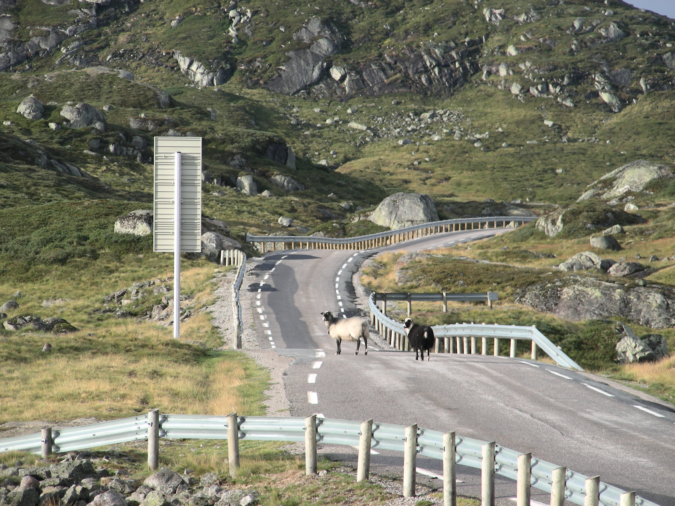 Sirdal, Norway